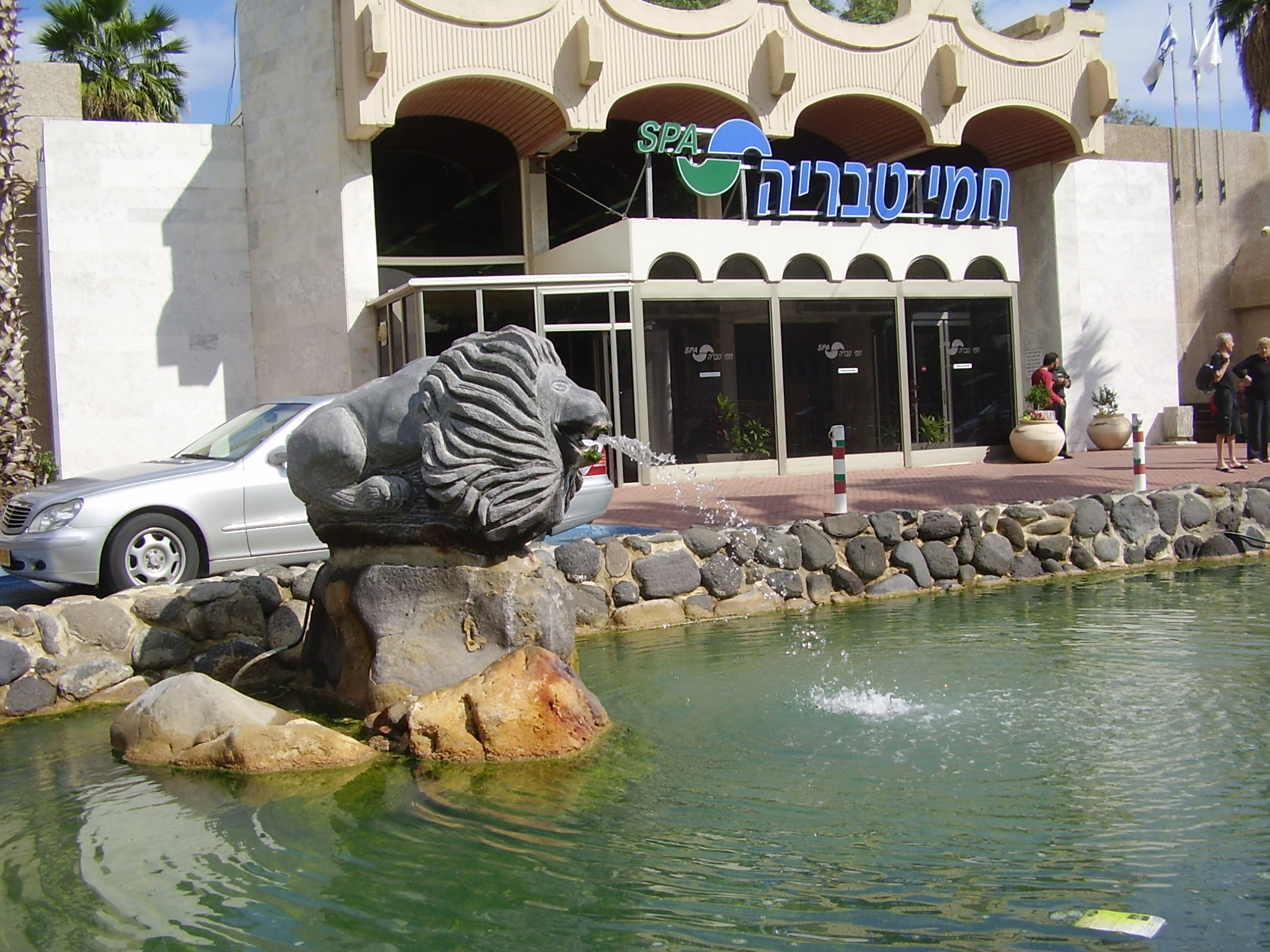 lion fountain in tiberias